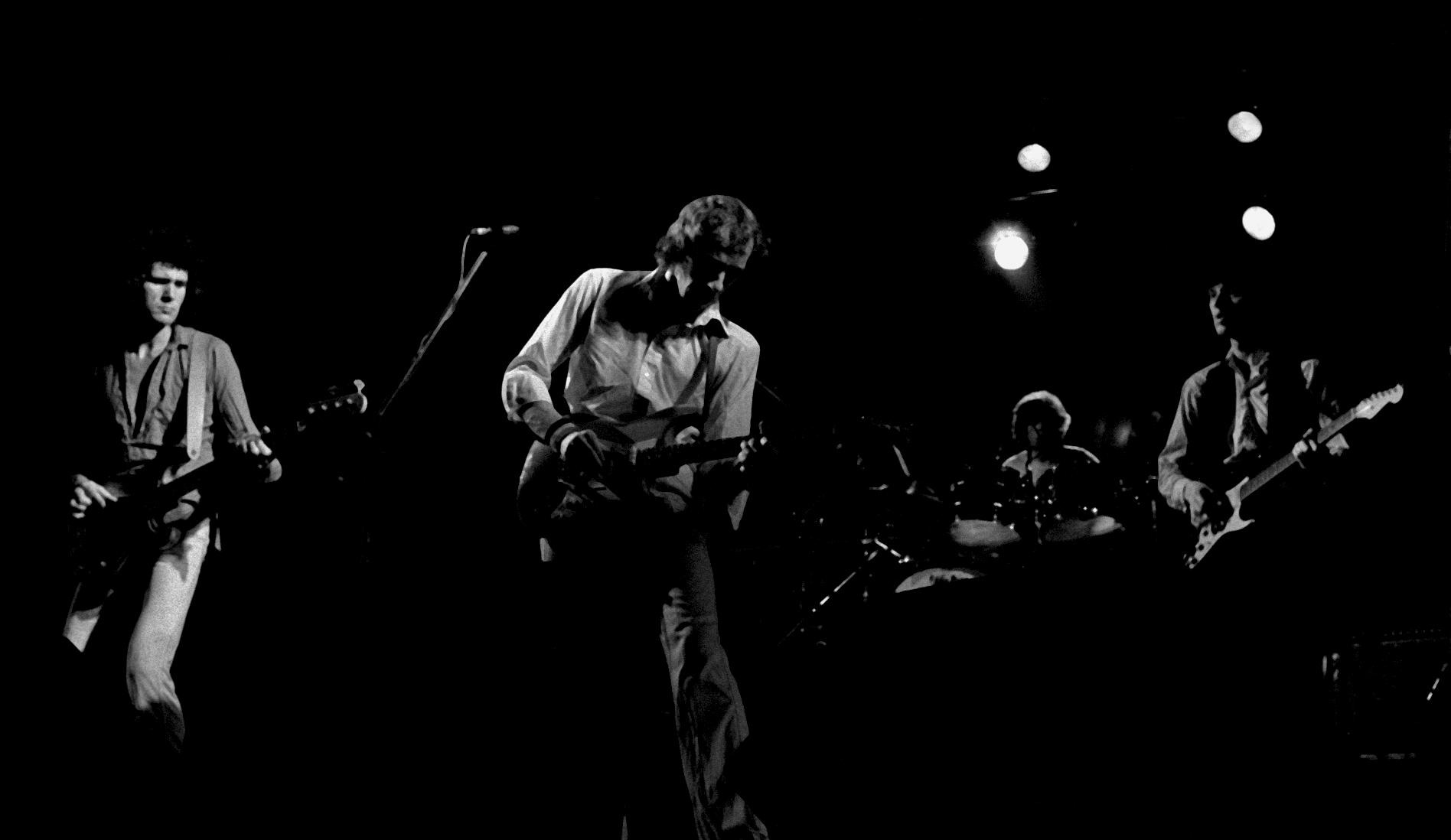 Dire Straits, Oktober 1978, Musikhalle Hamburg